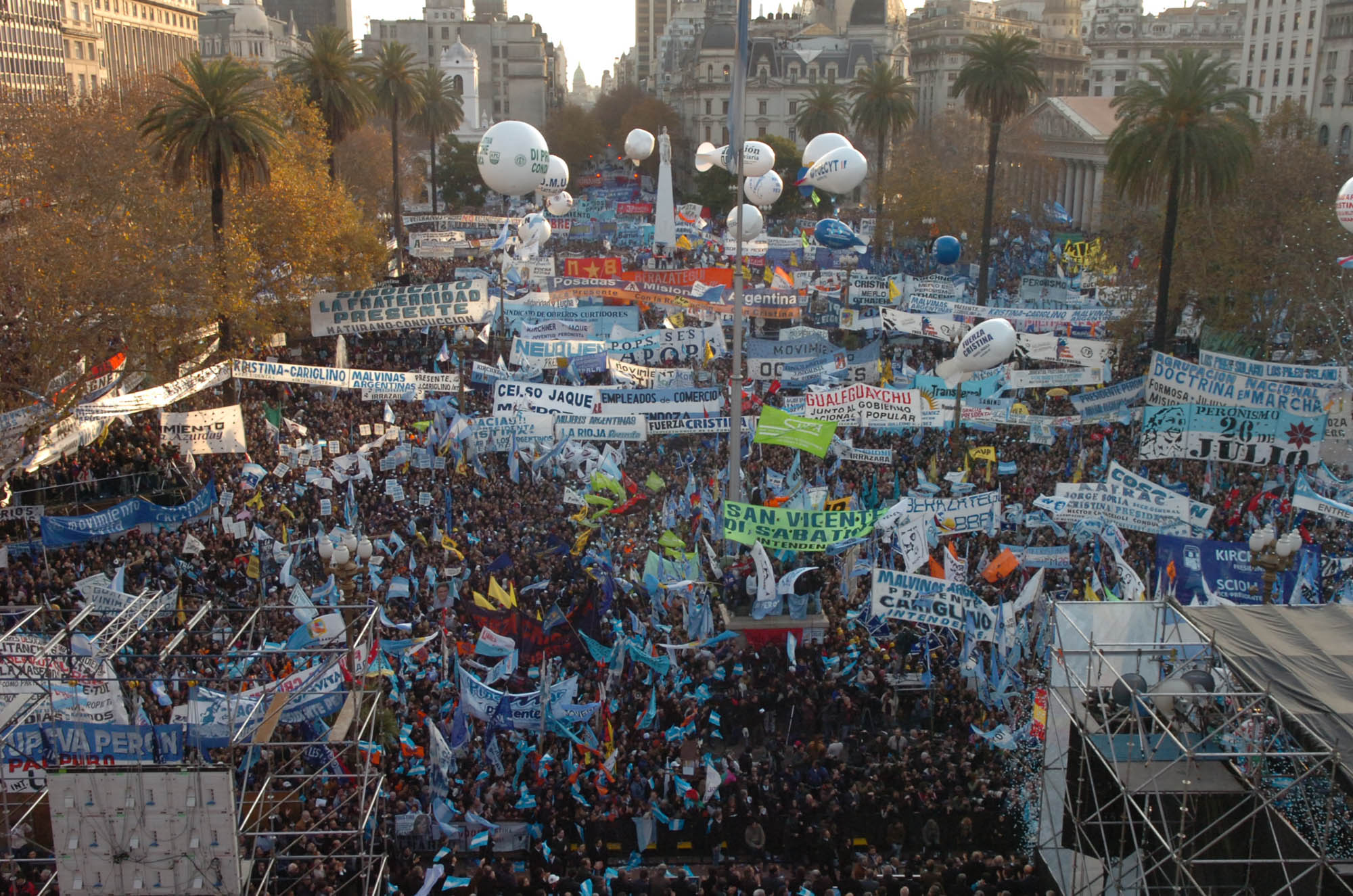 Sight of Plaza de Mayo during maqrch supporting government, during rural conflict